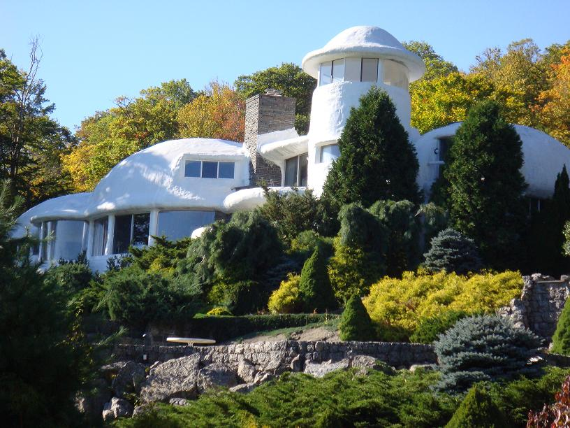 Star Castle, designed by futurist architect Roy Mason in New Fairfield, Connecticut